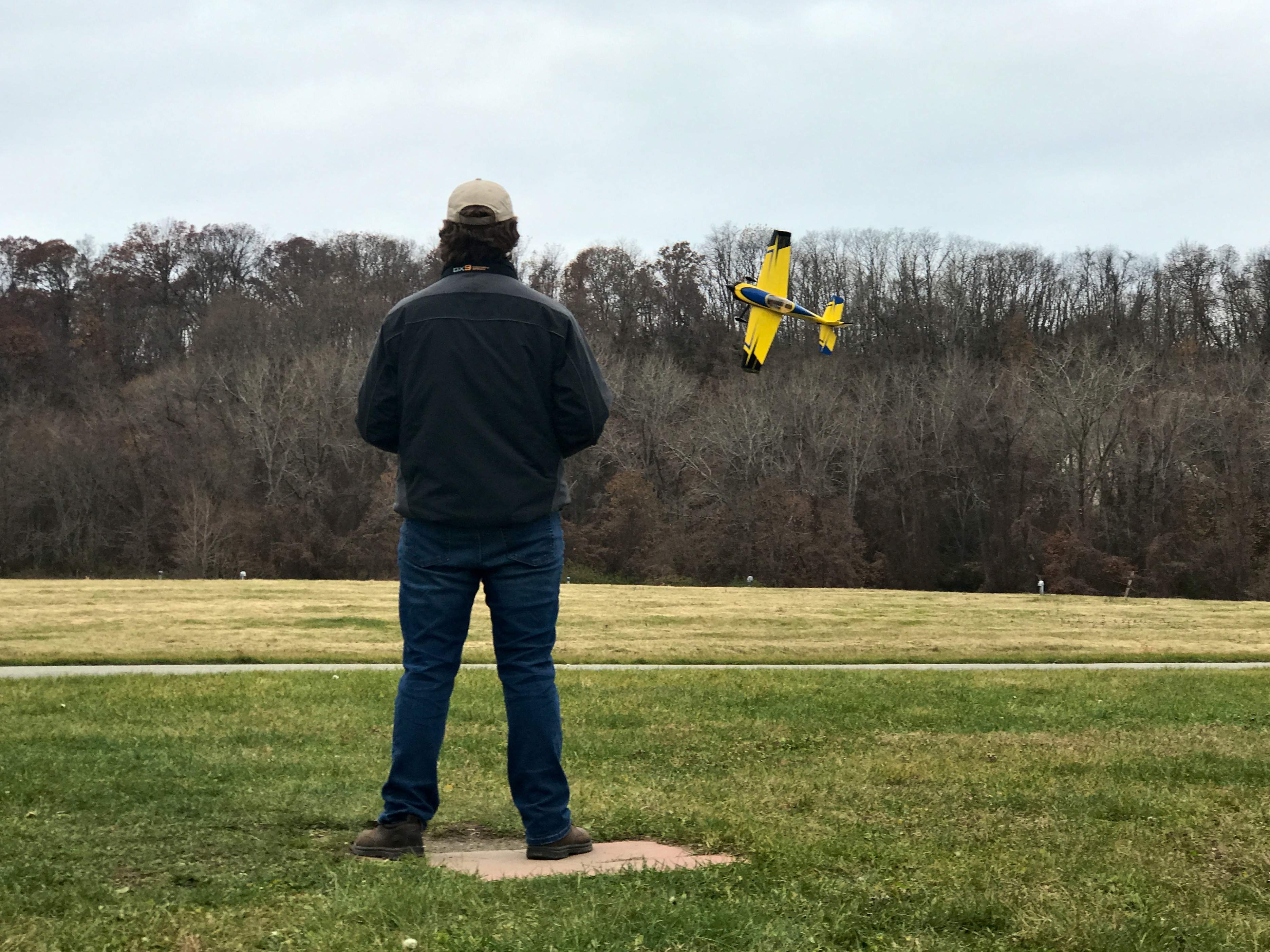 Hobbyist demonstrating the knife edge with an Extreme Flight 74" Slick, a radio-controlled airplane, at the HHAMS Aerodrome.